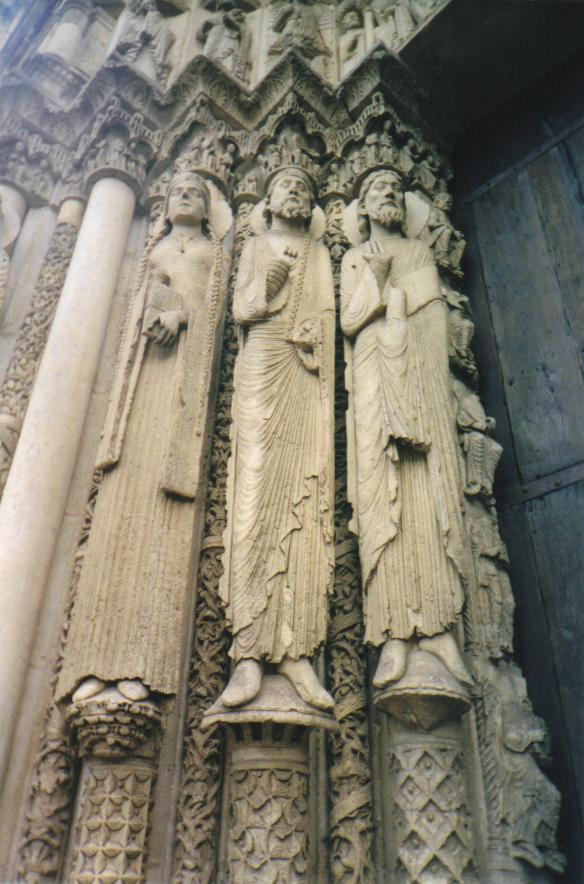 Figures from Cathedral of Chartres Picture taken by Eixo